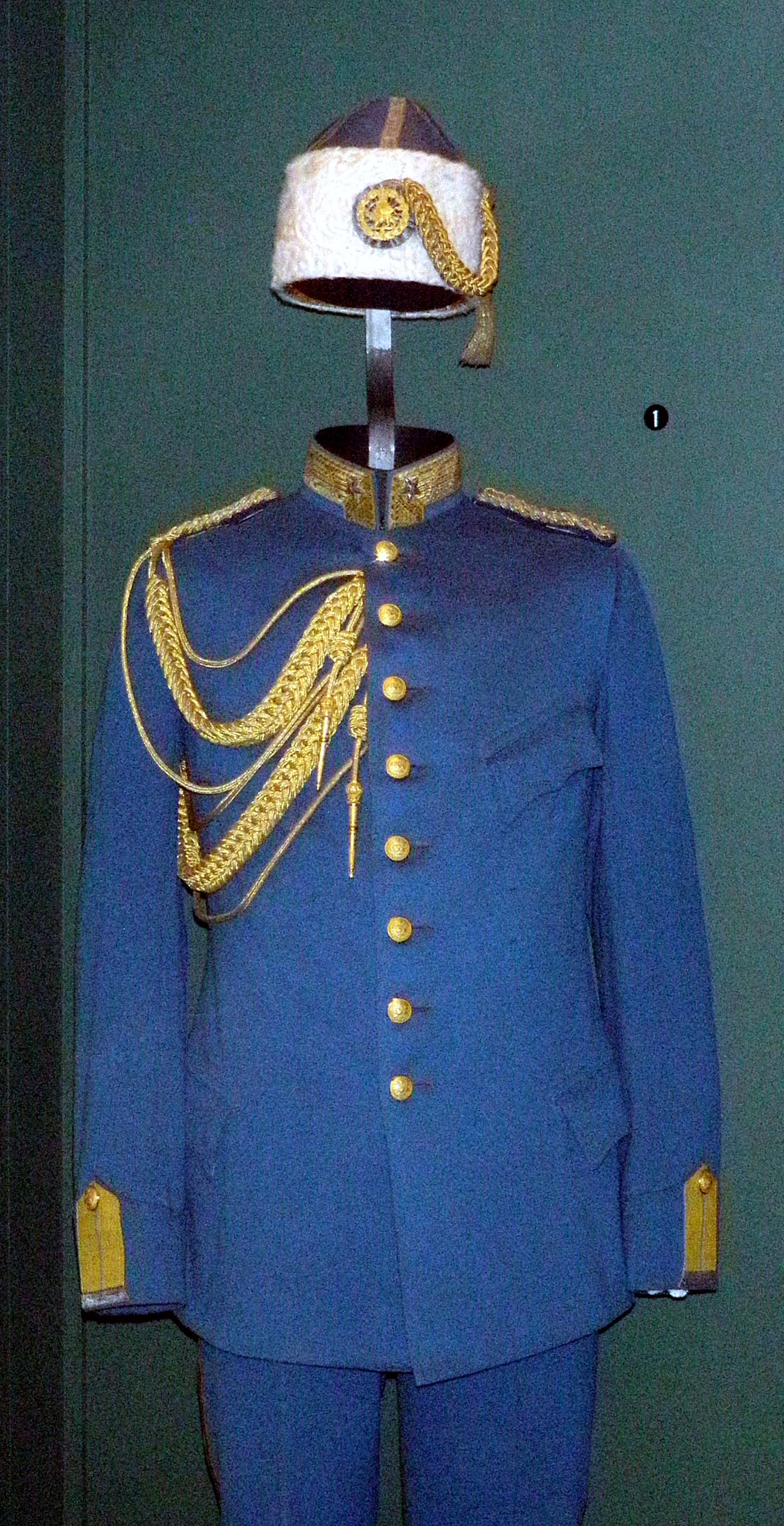 A uniform of a general in the Persian Gendarmerie, which had been worn by the Swedish General Harald Hjalmarson. The uniform is on display at the Swedish Army Museum in Stockholm, Sweden.